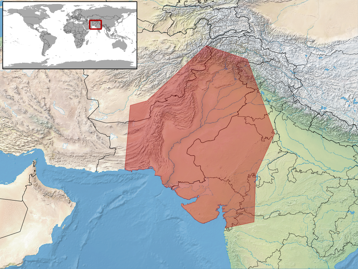 geographic distribution of Eublepharis macularius